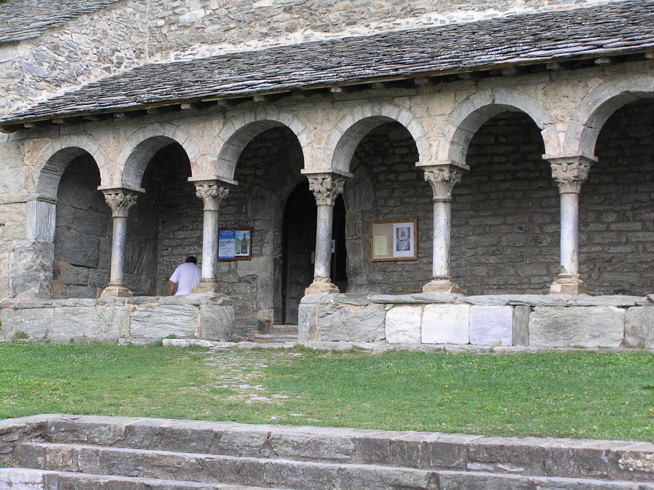 Picture of the 10th-century Romanesque Church in Queralbs (Catalonia), Spain